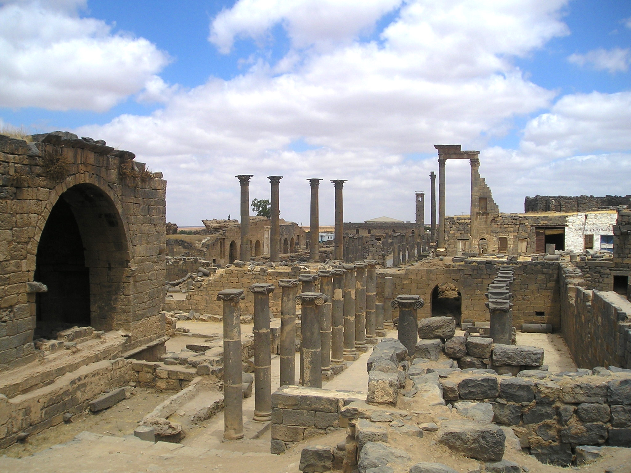 Bosra, Syria - Roman ruins north of the citadel - theatre..